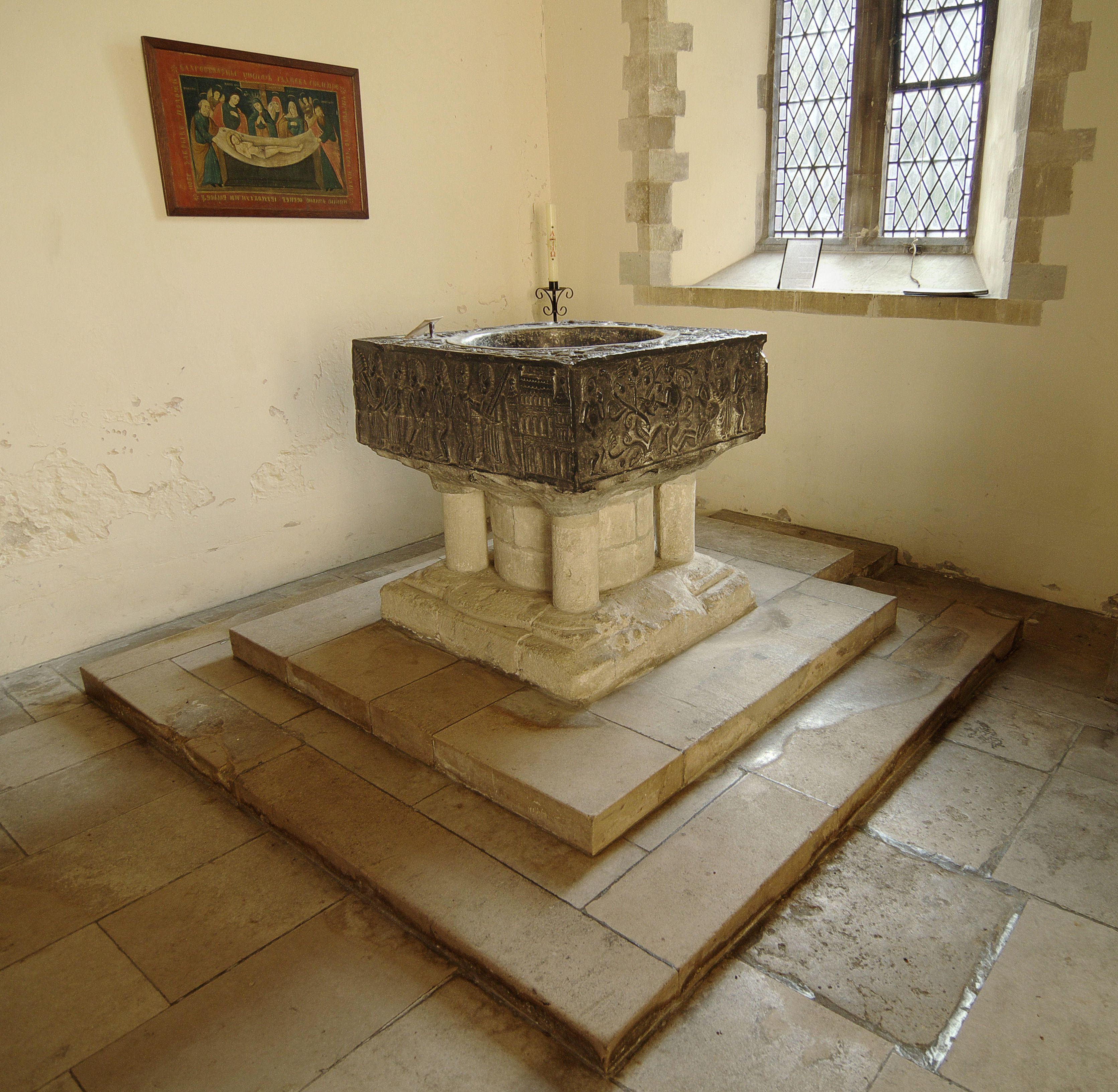 made in C12 from Tournai marble (present-day Belgium)